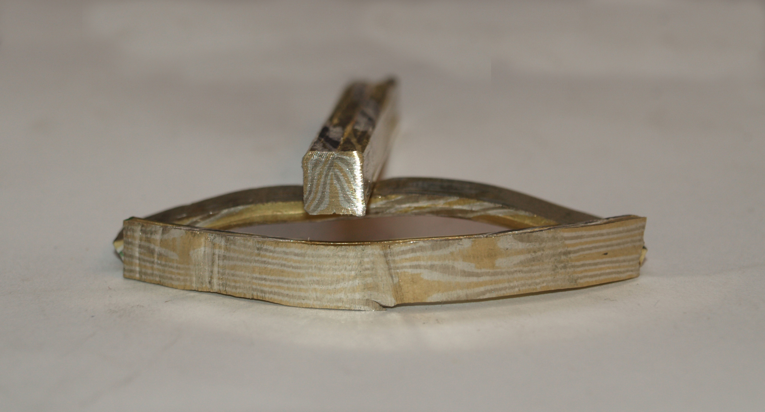 Mokume-gane pattern with 3 metals, 18 kt.yellowgold, silver and 14 kt. palladium whitegold.